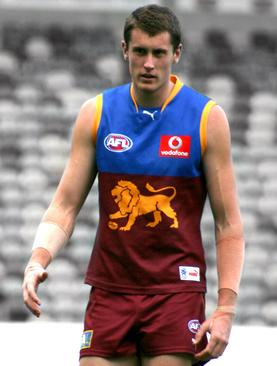 Matthew Leuenberger at a Brisbane Lions public training session in 2007. The Gabba, Brisbane, QLD, Australia.